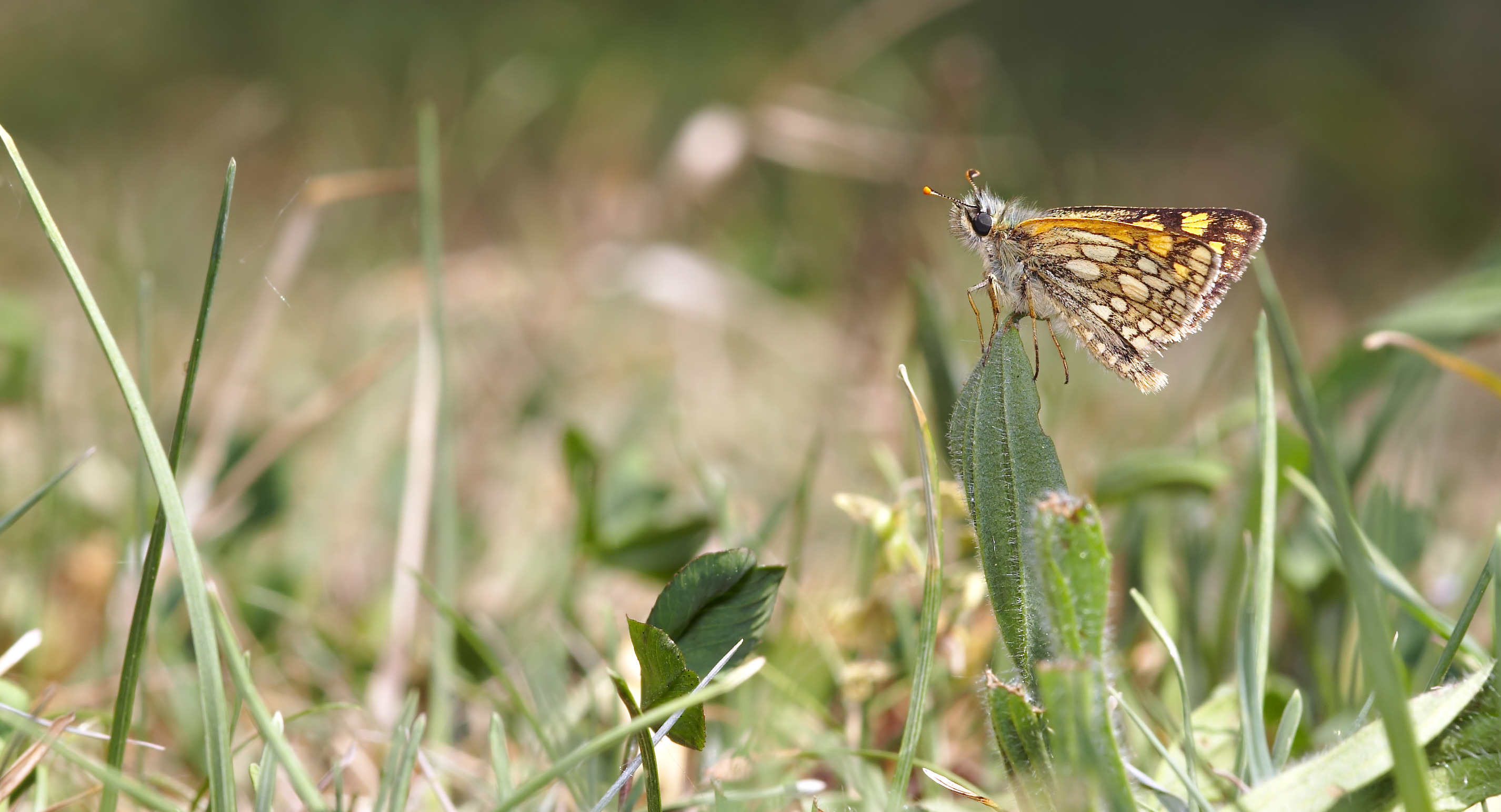 Carterocephalus palaemon (Chequered Skipper)